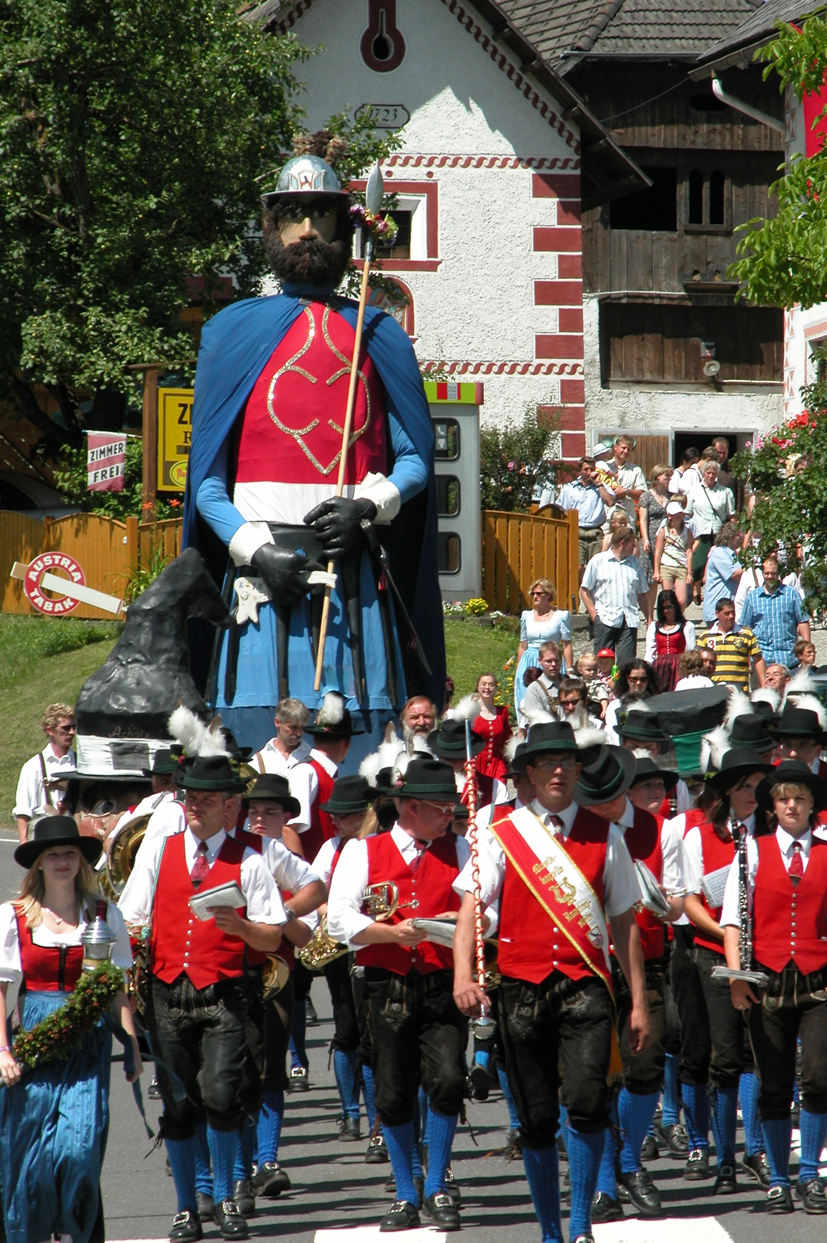 Great Giant Samon Parade in Ramingstein-Kendelbruck, Land Salzburg, Austria